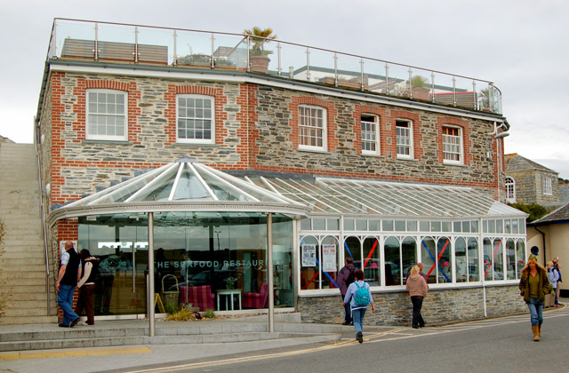 Rick Stein's Seafood Restaurant, Padstow